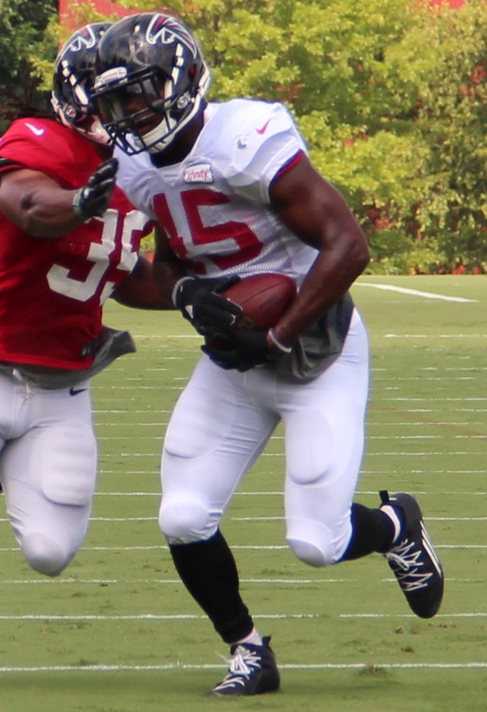 Deion Jones after intercepting a pass